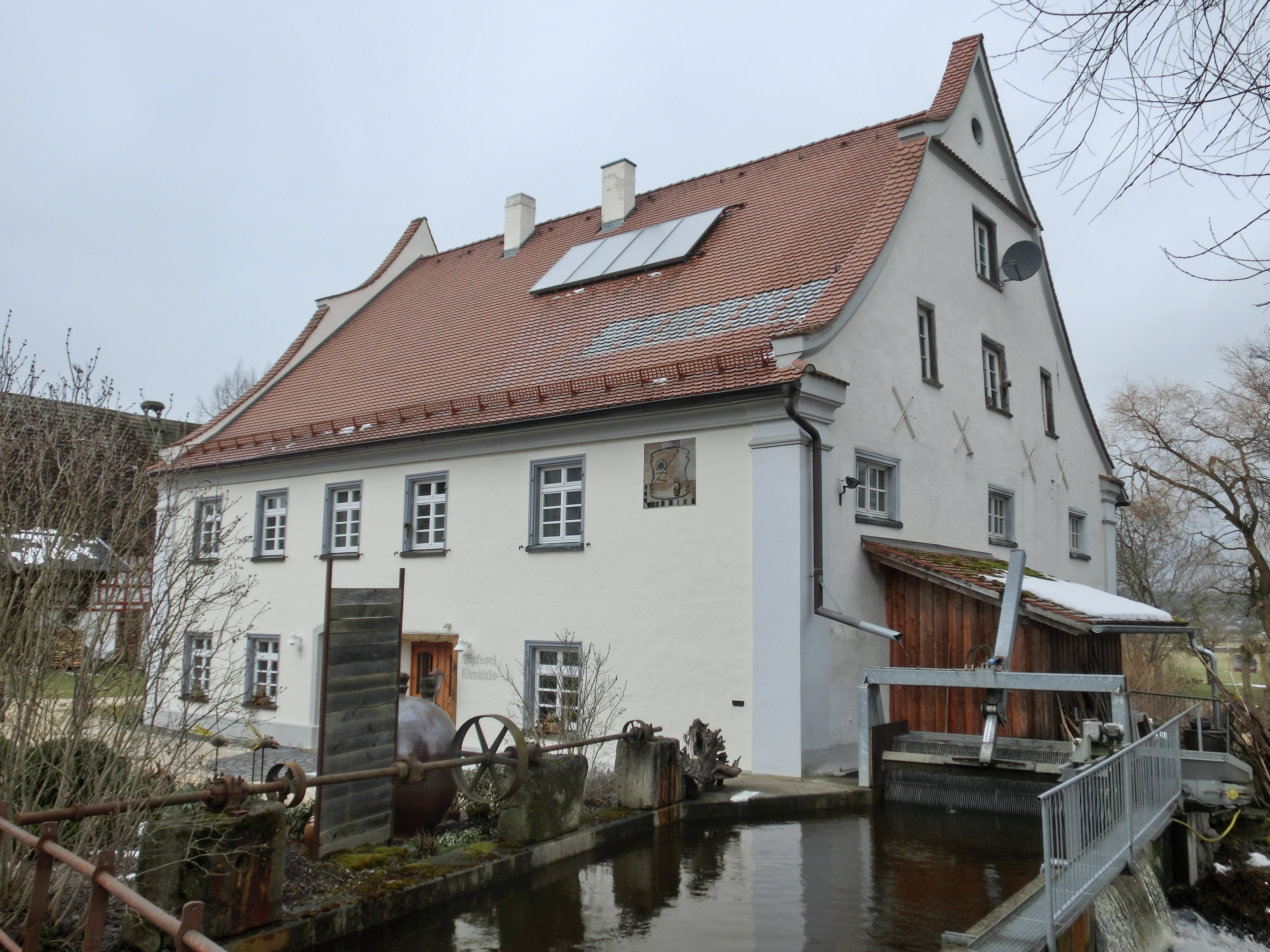 Germany - Baden-Württemberg - Landkreis Sigmaringen (district) - Ostrach, Eimühle: watermill